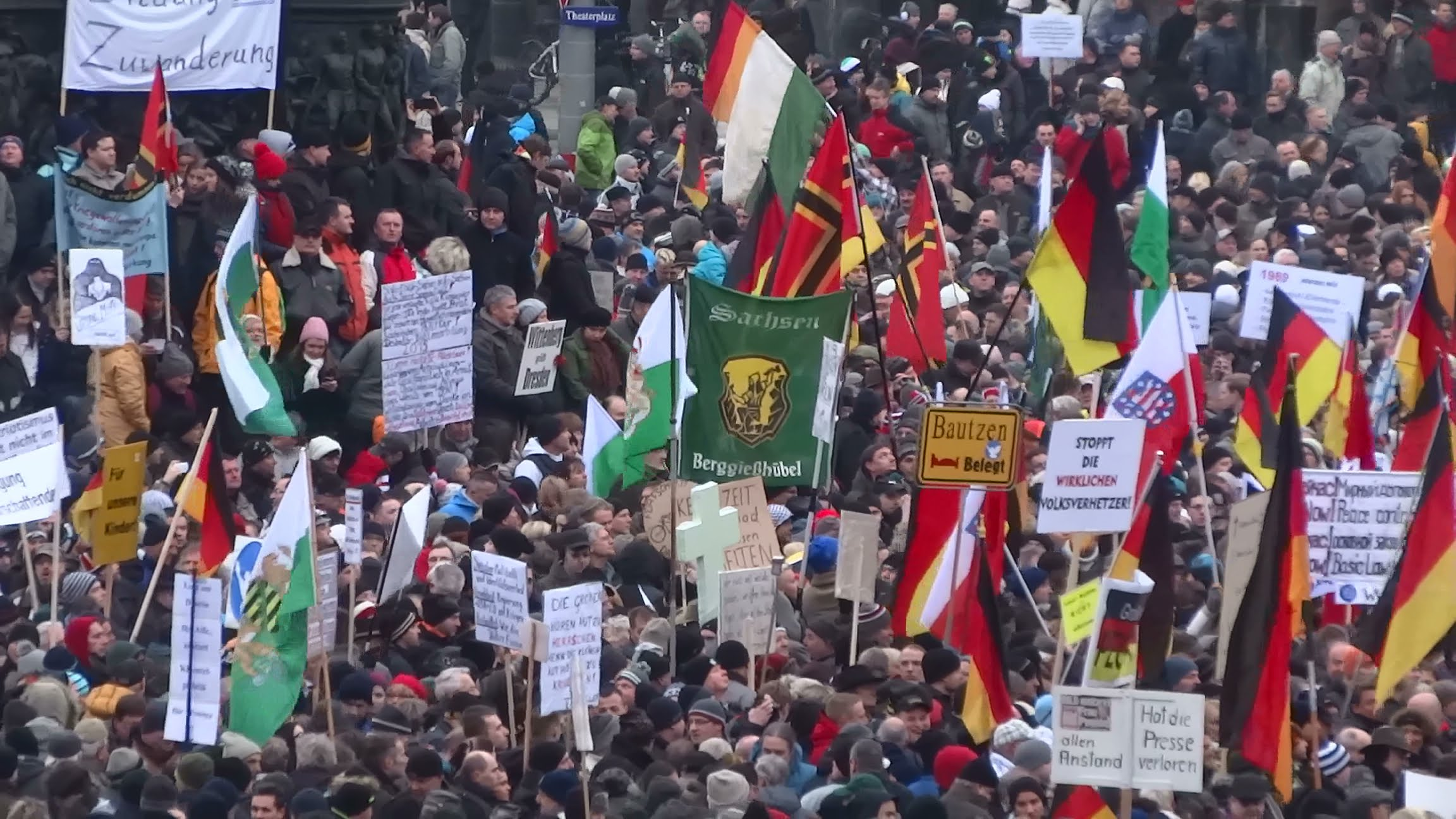 Demonstrators yelling "Wir sind das Volk!" and do not want of being exterminated by others in their country.